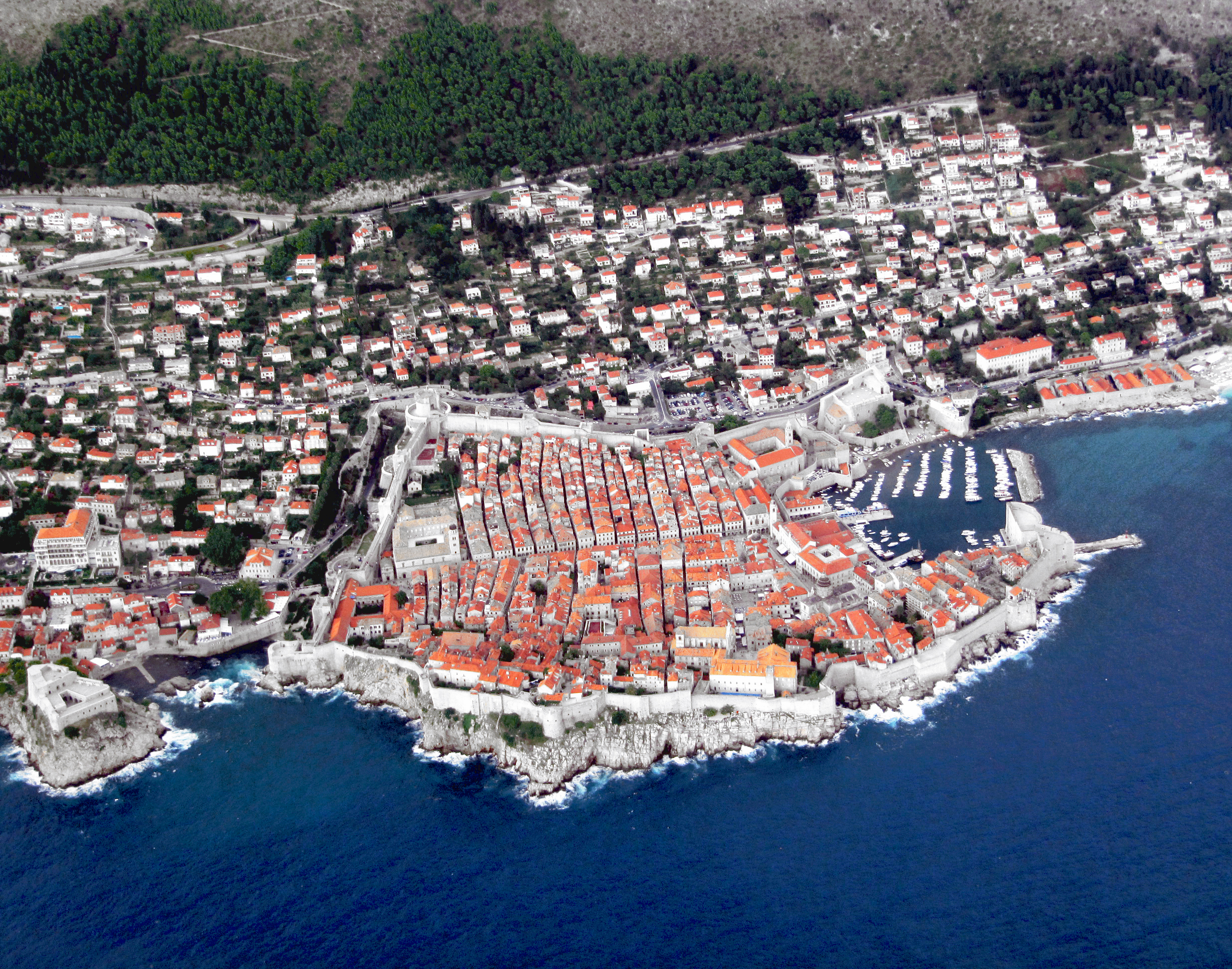 Dubrovnik from the aeroplane.